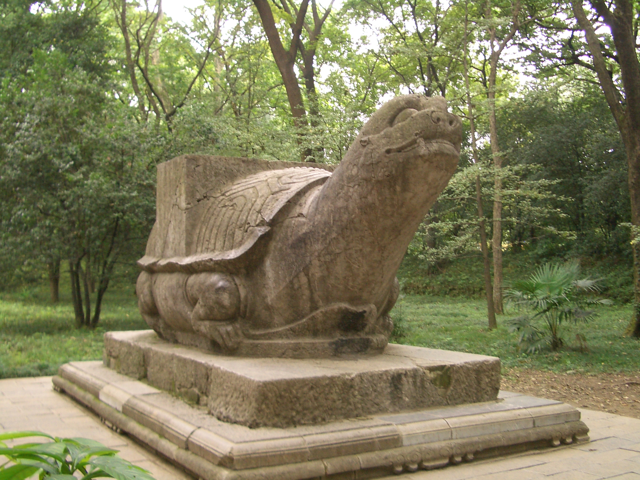 The Stone Tortoise in the woods near the Linggu Temple in Wuhan's Linggu Scenice Area. According to the plaque by its side, its story is not known, but it is thought to be associated with the Ming-Dynasty Linggu Temple. Although it (presently) carries no stele (as most of such bixi tortoises do), it looks very similar to the stele-carrying bixi in Nanjing's Drum Tower